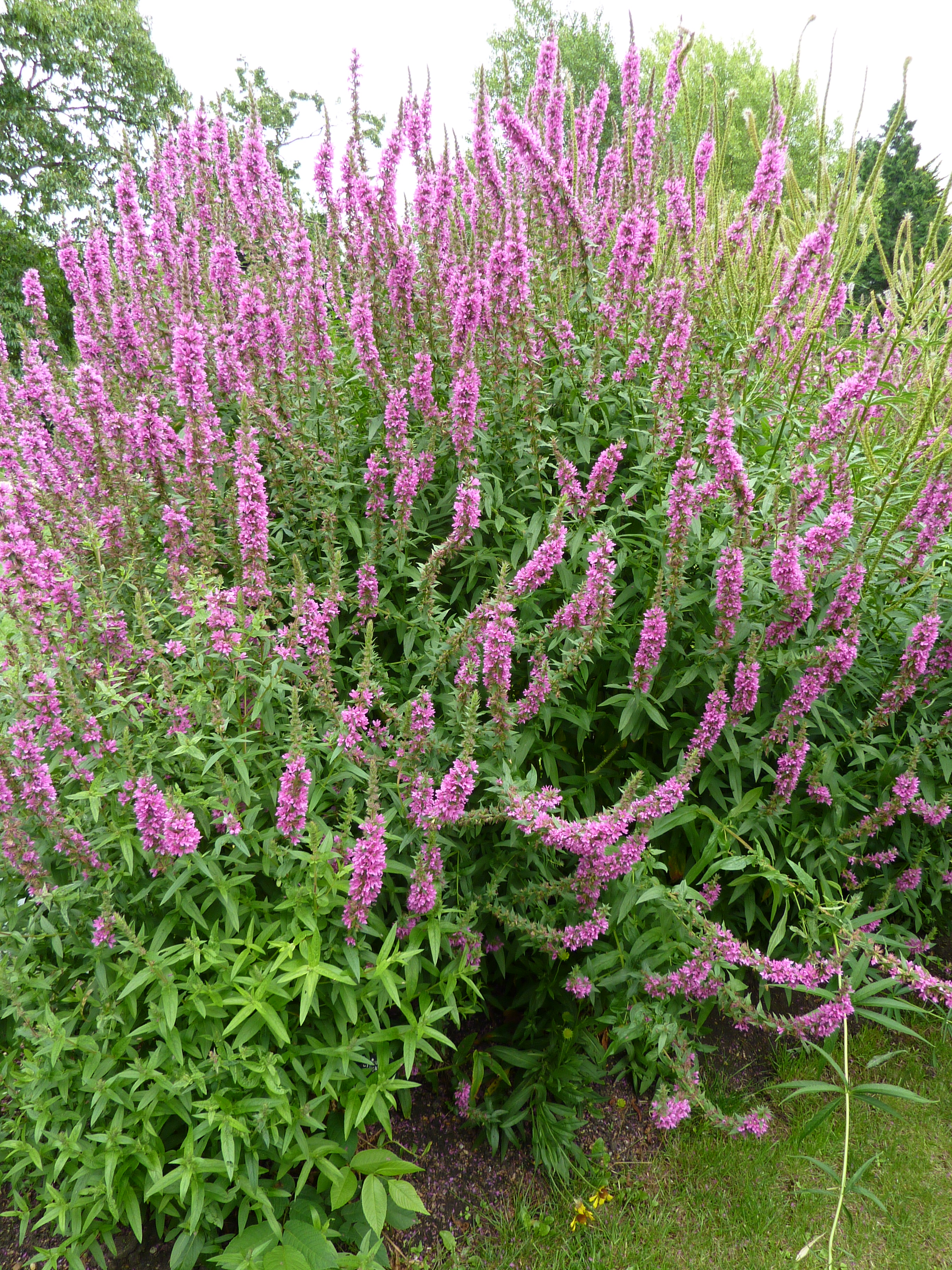 Lythrum salicaria, Cambridge University Botanic Garden